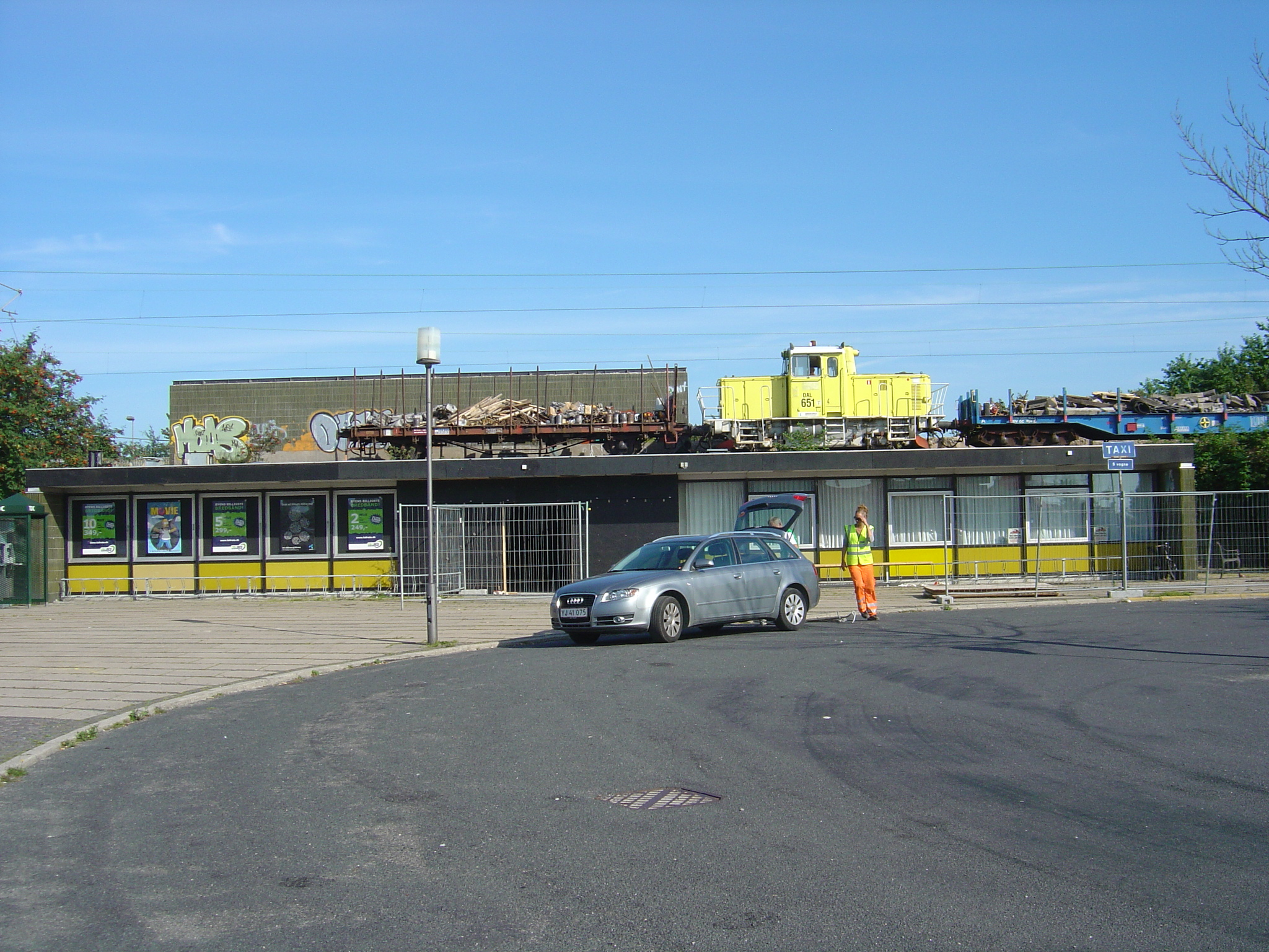 Ellebjerg station was a former train station in Valby, Copenhagen, that closed down in 2007. Seen from the northwestern side next to Ellebjergvej og Valby Idrætspark.